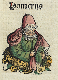 This is a part of a scan of an historical document: Title: Schedelsche Weltchronik or Nuremberg Chronicle